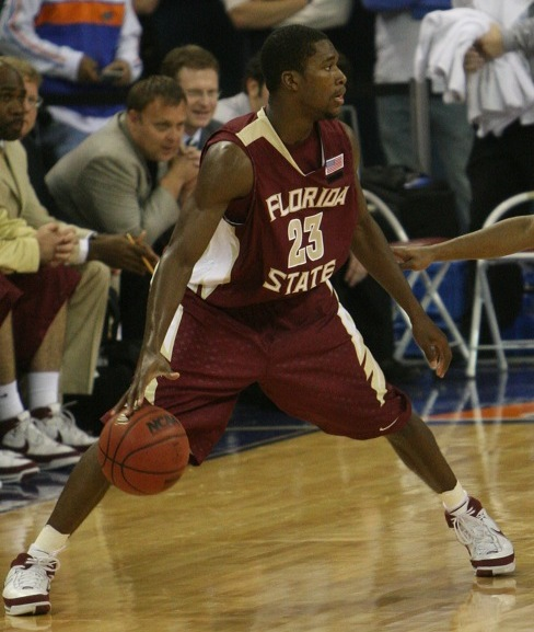 FSU's Toney Douglas